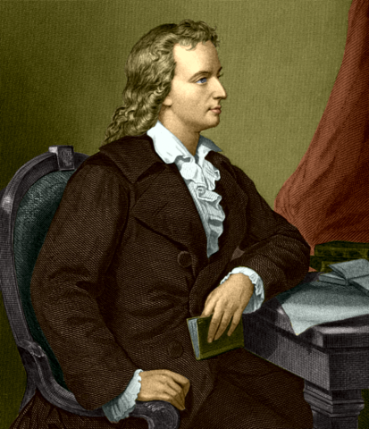 Coloured by uploader